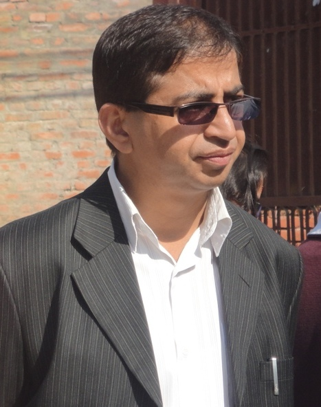 Laxman Gamnage is a author of Nepali literature.